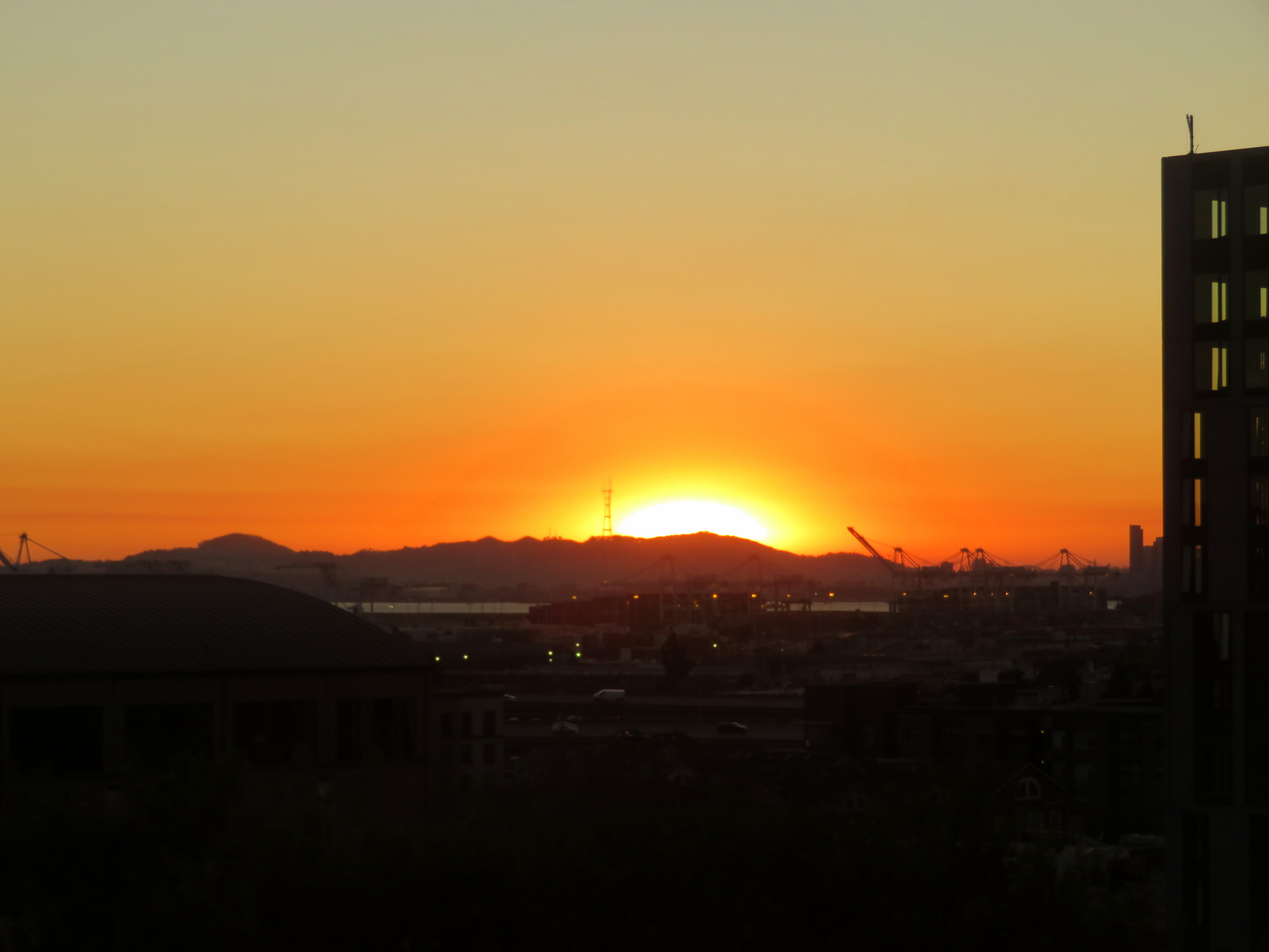 A very orange sunset over San Francisco on October 29, 2019, caused by smoke from the Kincade Fire